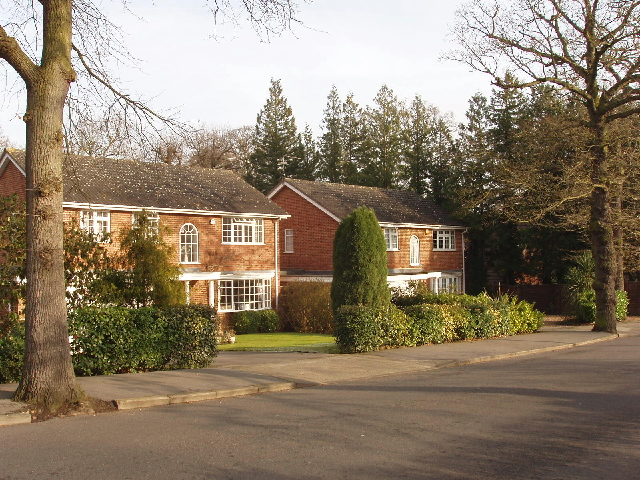 Houses in Northgate, Northwood. This is an area of large detached houses with large gardens.